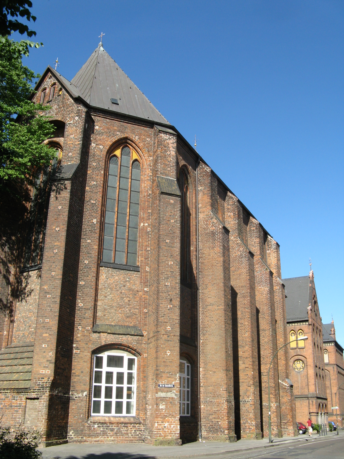 Former Monastery church, today: gymnasium and auditorium of Goethe-school in Wismar, Mecklenburg-Vorpommern, Germany